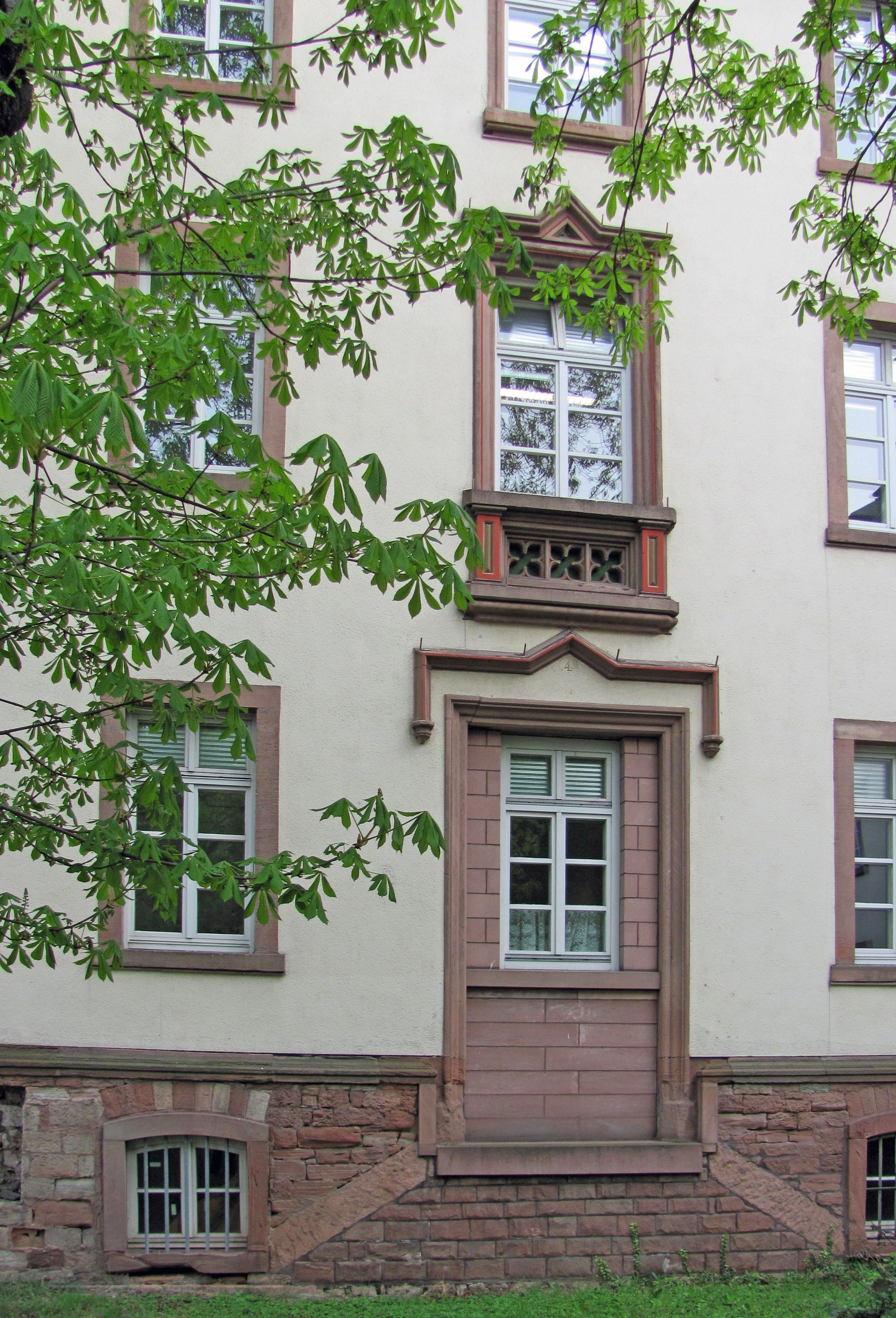 Behoerdenhaus Hanau, Detail